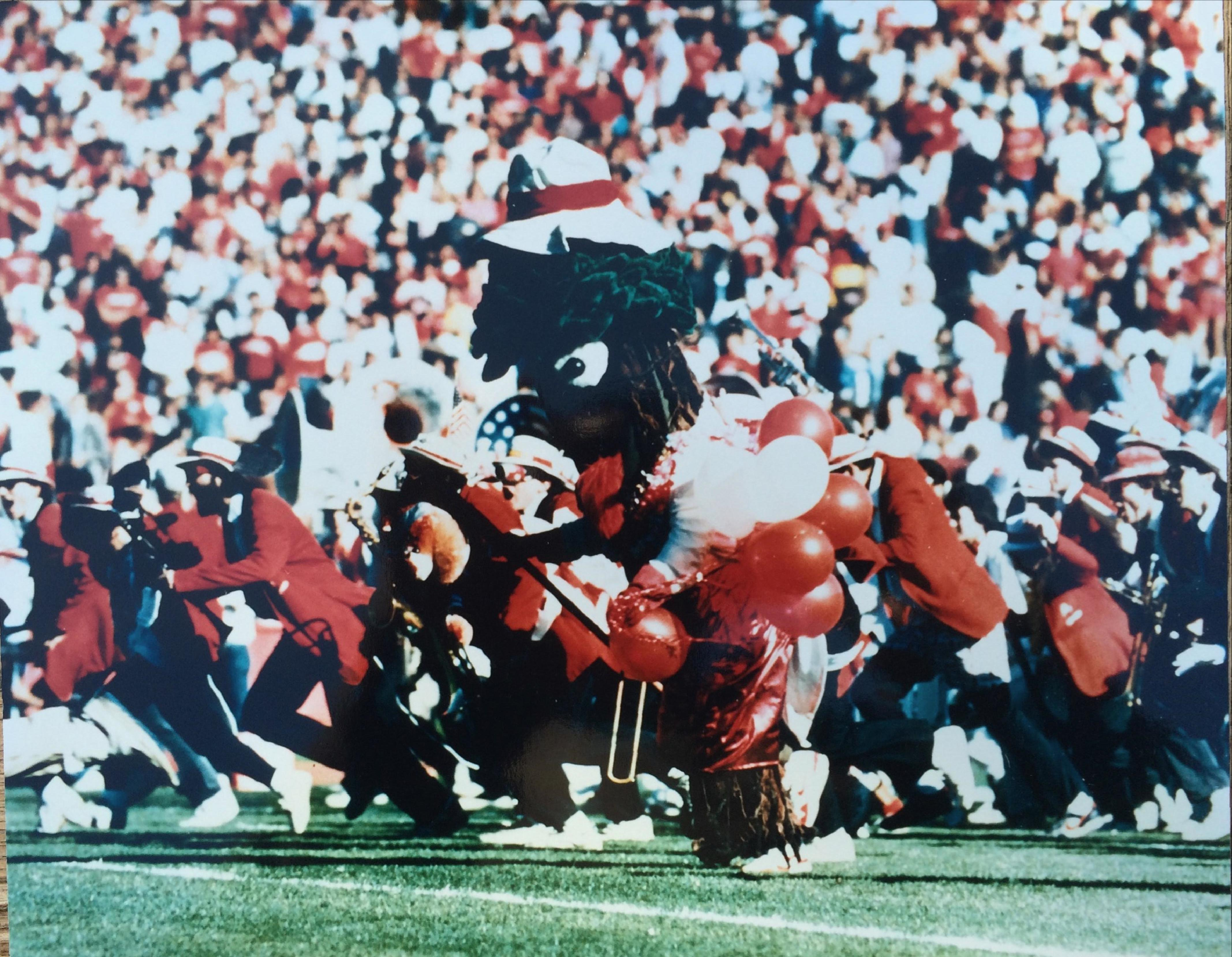 Paul Brendan Kelly III as the Stanford Tree, 1987 Big Game